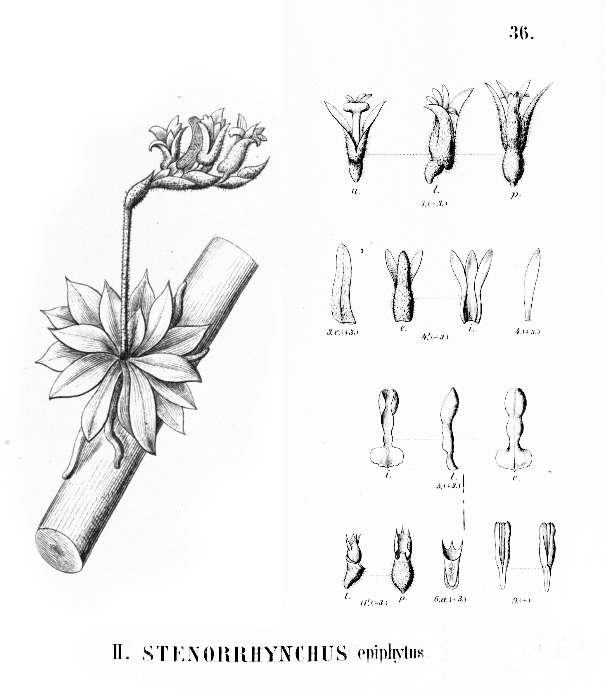 Illustration of Lankesterella caespitosa (as syn. Stenorrhynchos epiphytum, spelled by Cogniaux as Stenorrhynchus epiphytus)